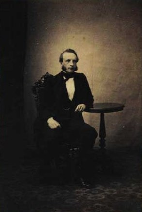 Carl Georg Nicolai Vilhelm Sporon (1824-1890), Danish judge